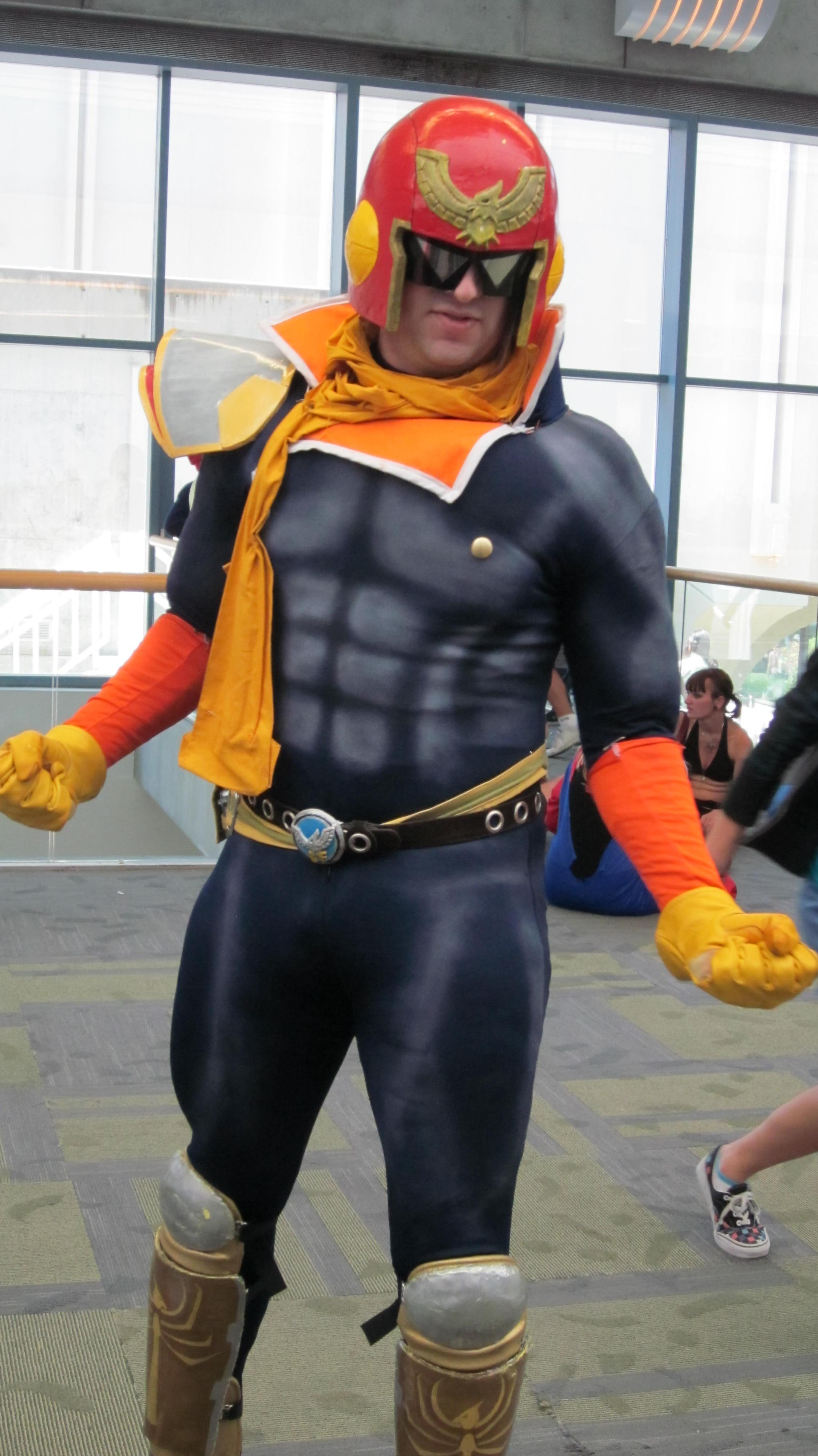 A cosplayer portraying Captain Falcon from F-Zero at FanimeCon 2010 in San Jose, California.